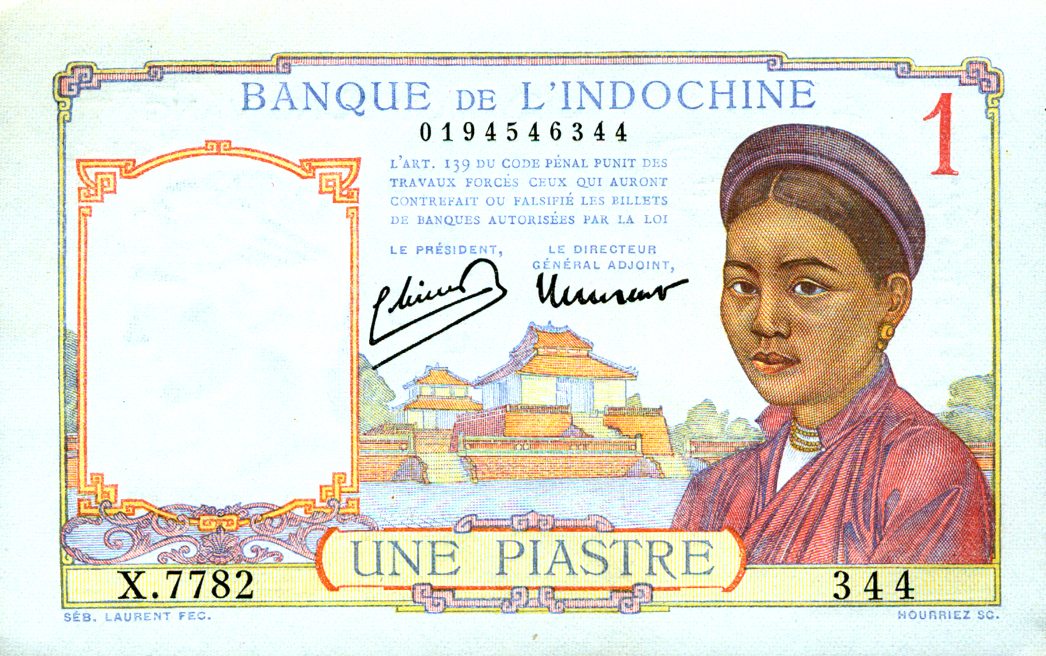 bill from Bank of Indochina. Note that Indochina ceased to exist in 1954 and was succeeded by Vietnam, Cambodia, and Laos